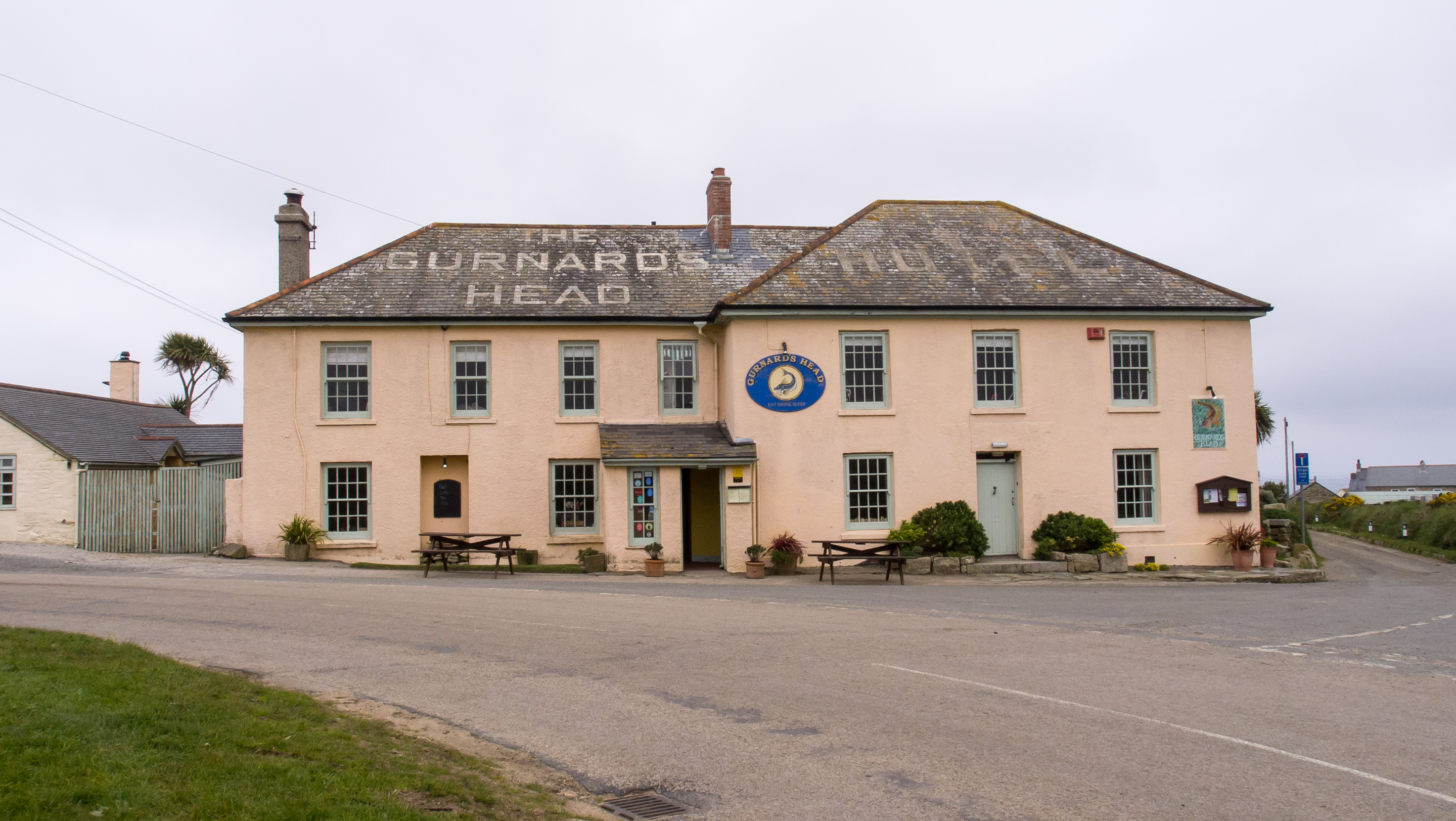 The Gurnard's Head Hotel, Penwith, Cornwall. On the coast road near Zennor.